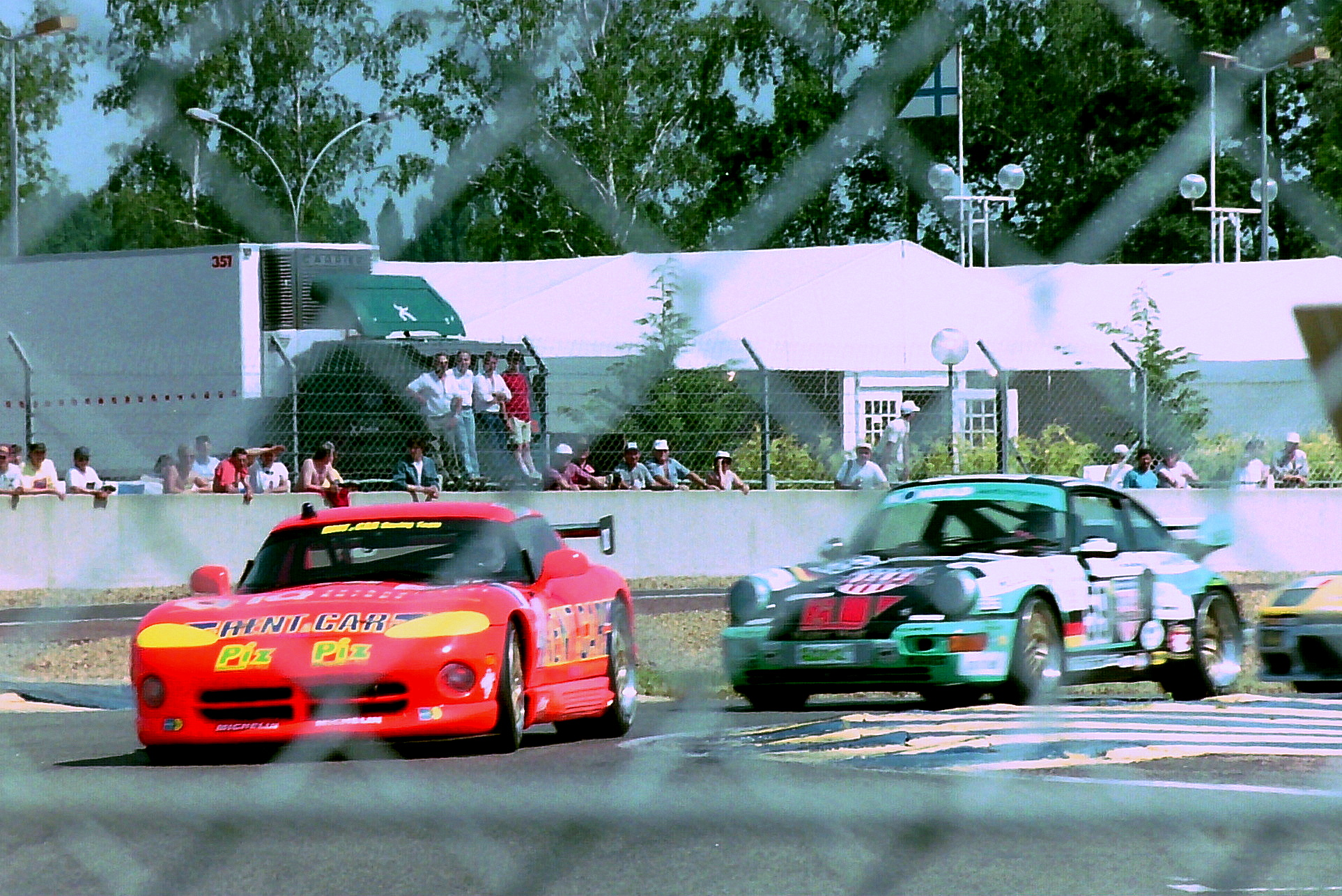 Dodge Viper RT10 - Rene Arnoux, Justin Bell & Bertrand Balas lead Porsche 964 Carrera RSR - Cor Euser, Matjaz Tomje & Patrick Huisman into Ford Chicane at the 1994 Le Mans